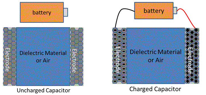 This graphic shows an uncharged capacitor then the capacitor being charged with a battery.